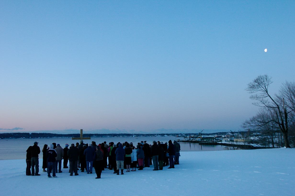 2007 Easter Sunrise service at Littlefield Memorial Baptist Church with other local Baptist churches. Photo taken prior to sunrise. Location is Rockland, Maine. other like photos available